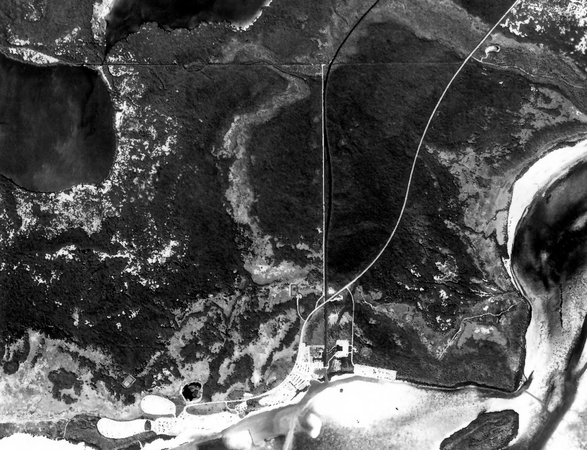 Aerial image showing the route of the Mud Lake Canal — in Everglades National Park, Monroe County, Florida. A National Historic Landmark, and on the National Register of Historic Places in Everglades National Park.